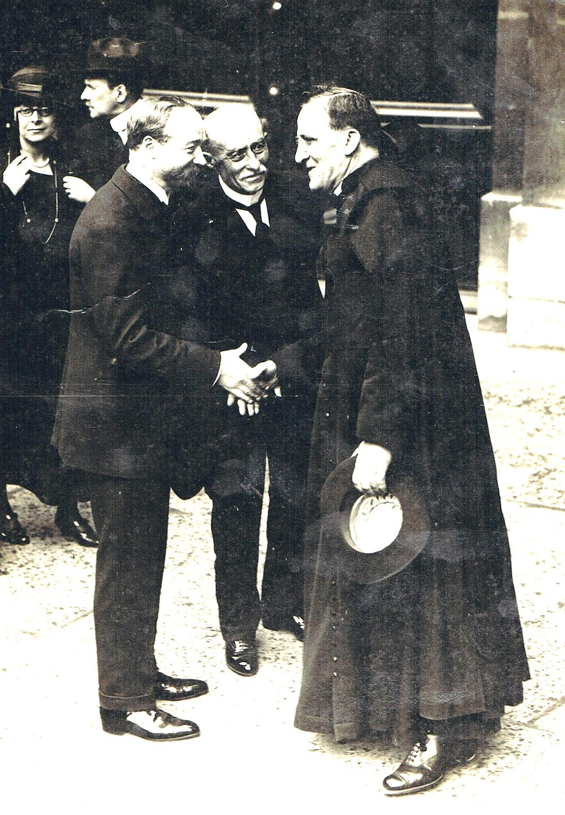 Alexandre Miniac, at left, with Henri Brémond, at right, photography by Agence Meurisse, 1923.